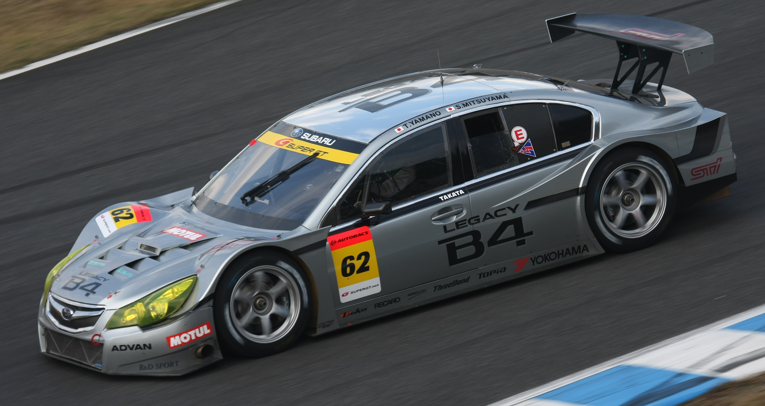 Super GT 2009 Rd.9: R&D Sport Legacy B4 (4WD).